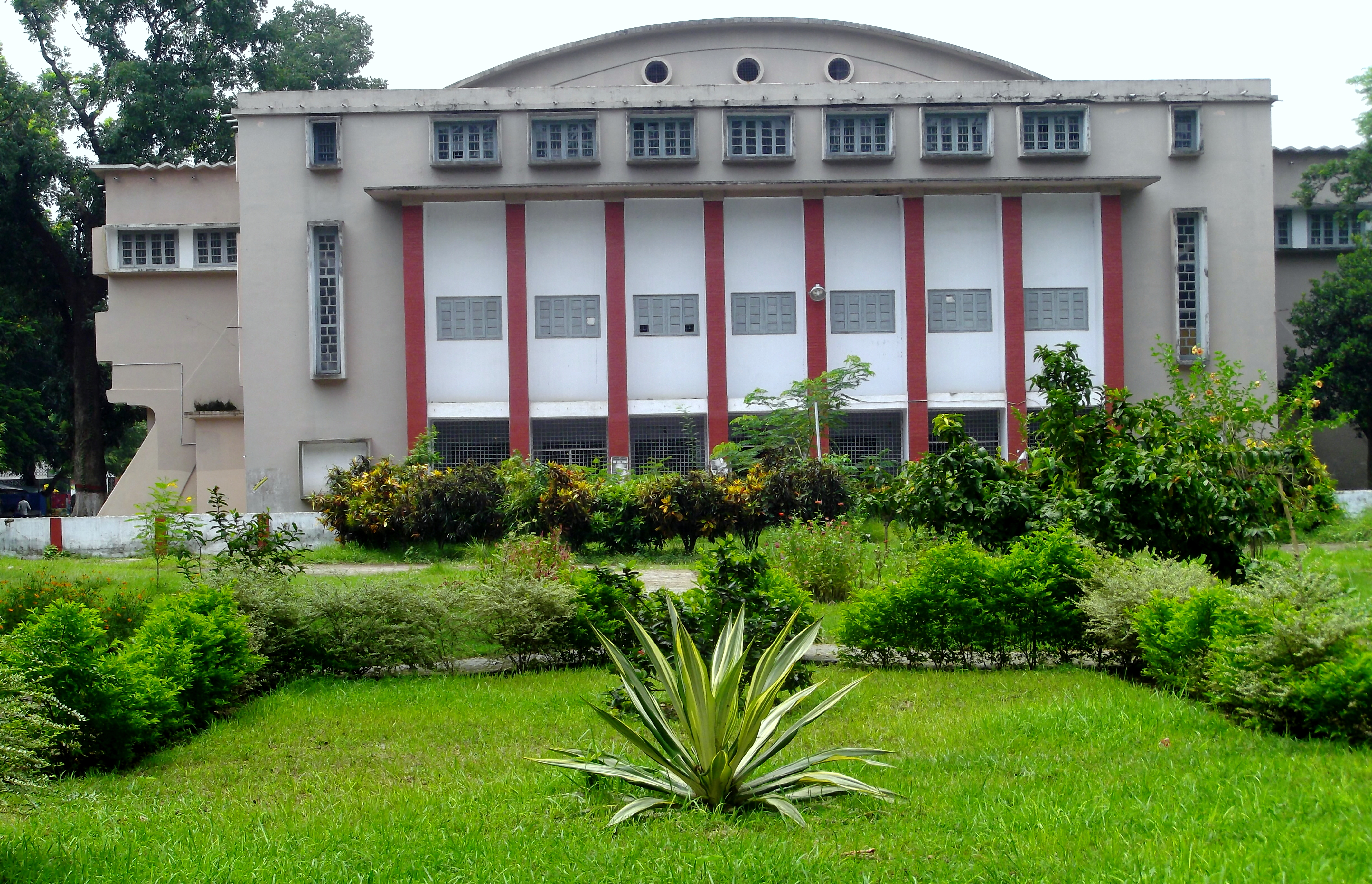 A beautiful auditorium of Rajshahi University.